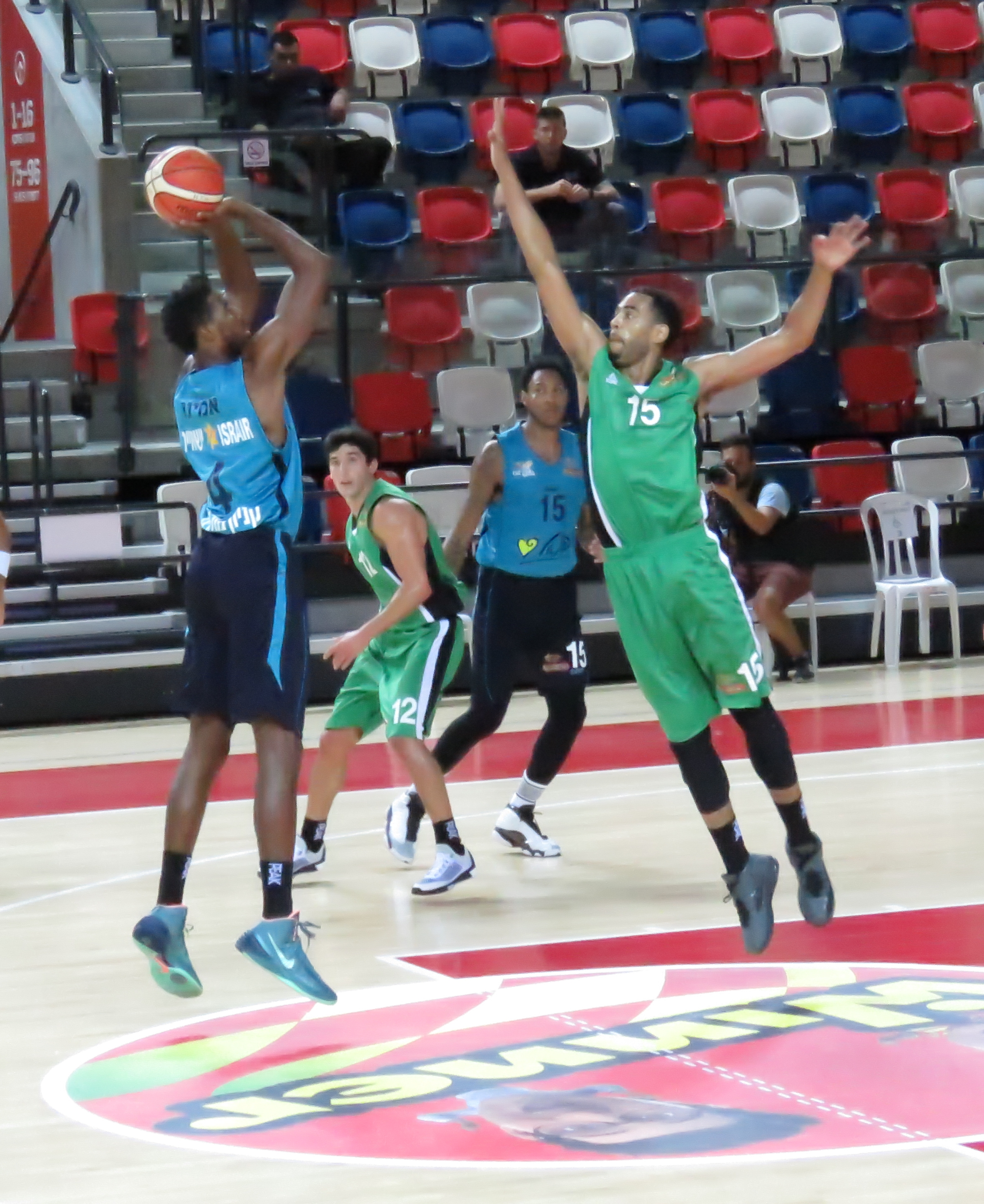 Hapoel Eilat vs. Maccabi Haifa B.C., 25 September, 2015